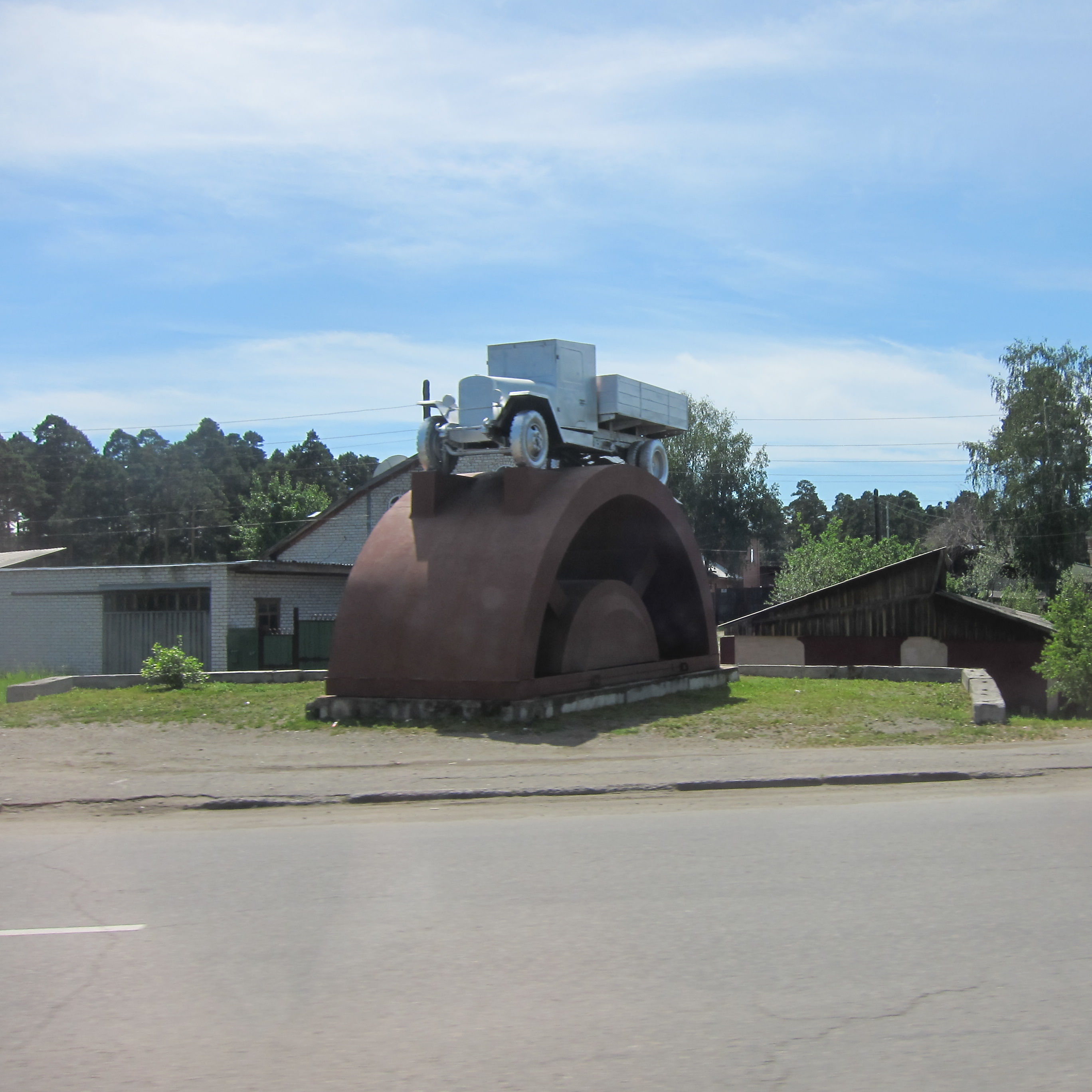 Monument to Chuysky Trakt (M52 highway) in Biysk, Altai Krai, Russia